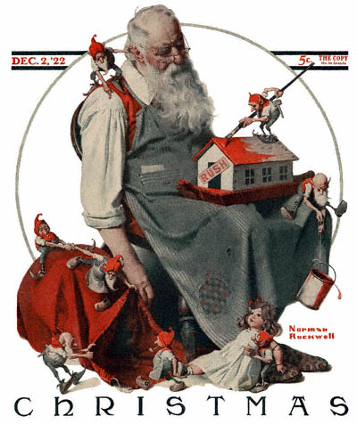 Norman Rockwell's Santa with Elves appeared on the cover of The Saturday Evening Post published 2-Dec-1922 Read more